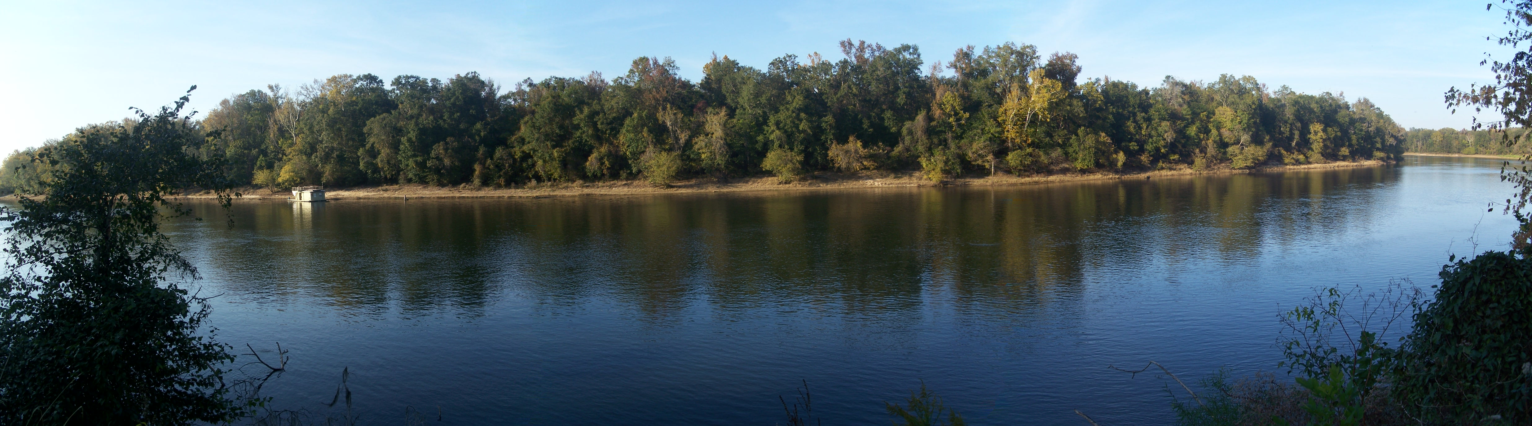 Panorama view of the Apalachicola river. Shot from below the outlook behind the Gregory House in Torreya State Park.